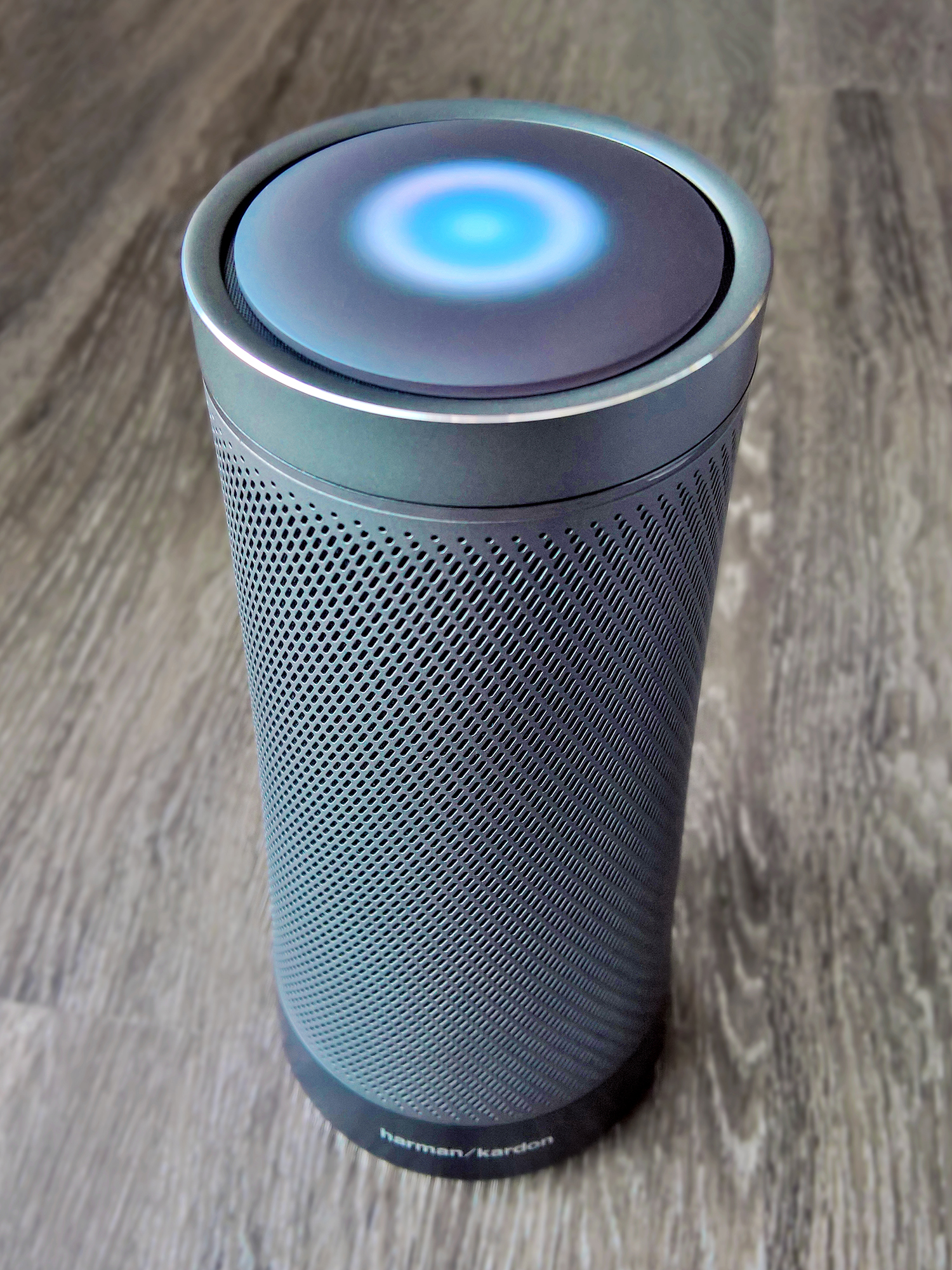 View of the Harman Kardon Invoke smart speaker, powered by Microsoft's Cortana.